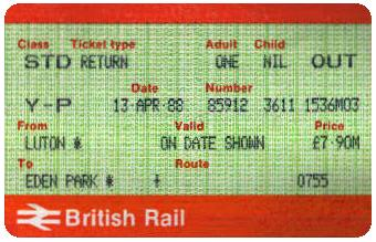 APTIS ticket showing current version of the "Y-P" status code. Scanned from my own collection